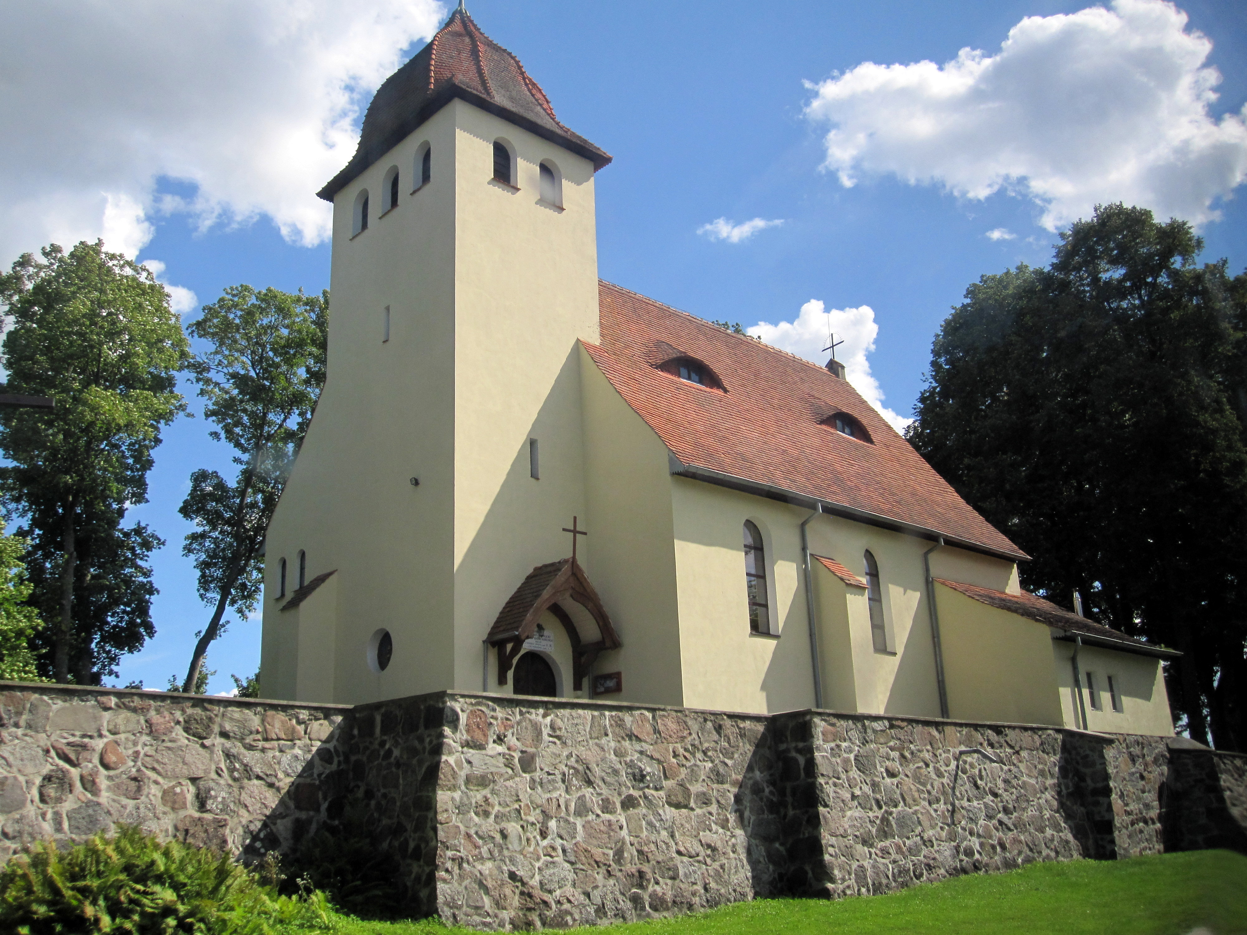 Mater Ecclesiae church in Baranowo (powiat mrągowski)